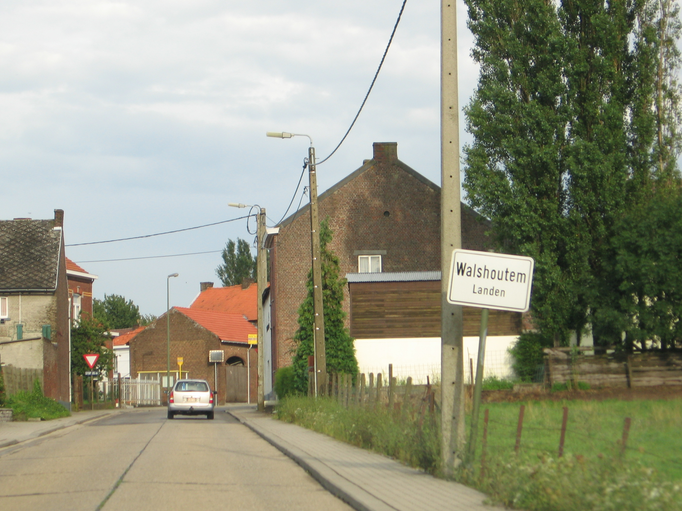 ingang Walshoutem